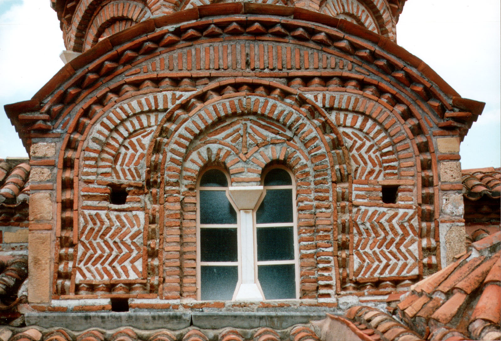 Detail of a church (Agia Sofia) in Mystras